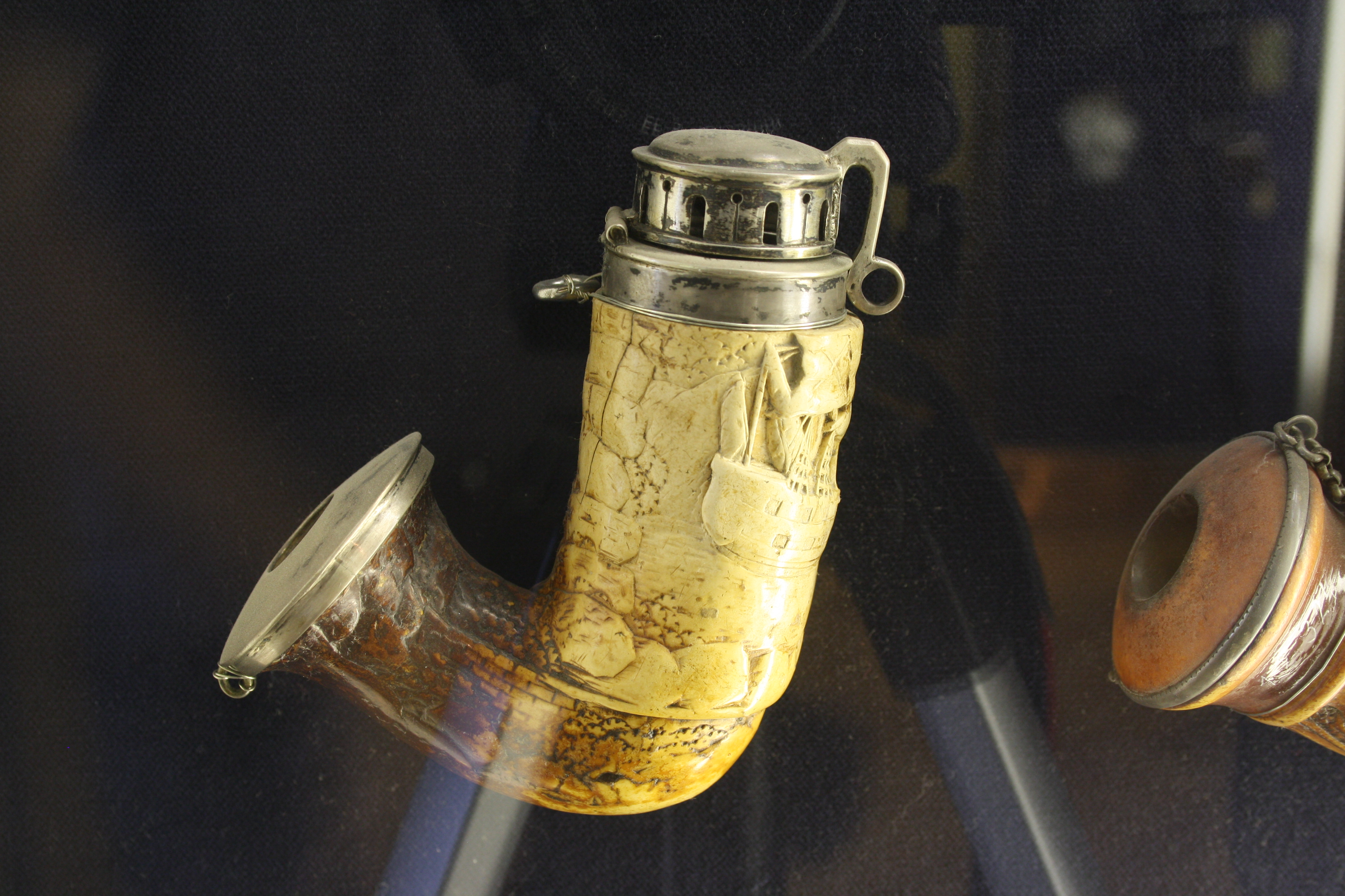 Antique pipe in collections of Museum Vysočiny in Třebíč.